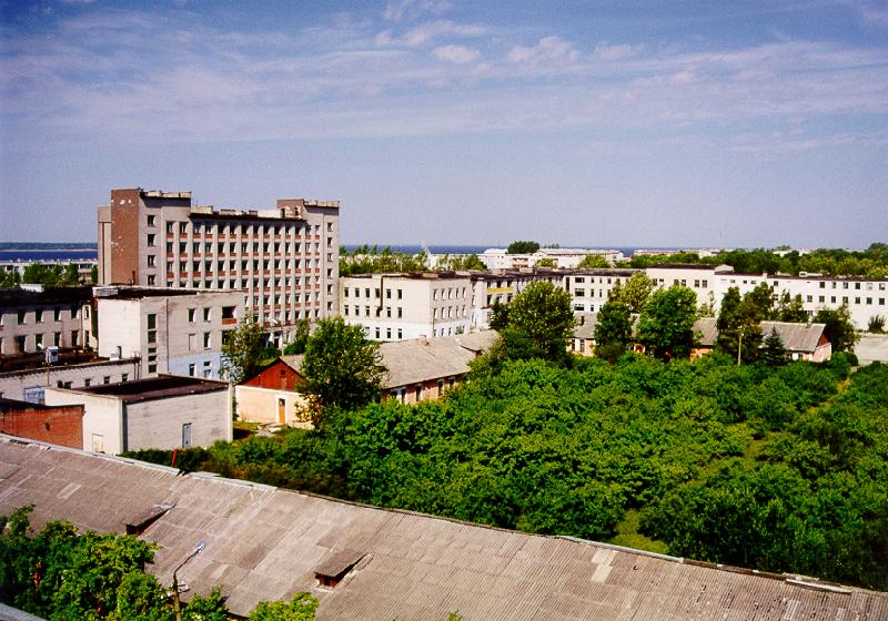 Ruins of Soviet Navy nuclear submarine training centre, Paldiski, Estonia